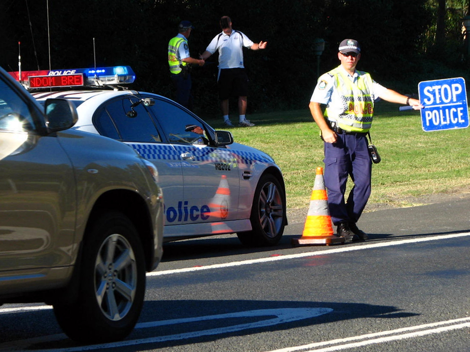 STOP POLICE!